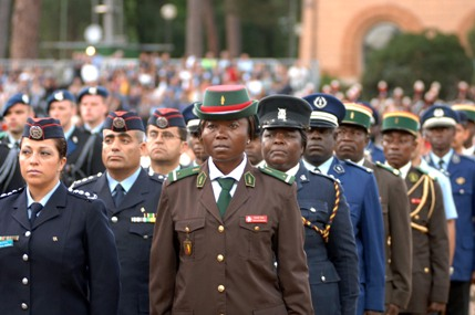 hoisting the flag - coespu